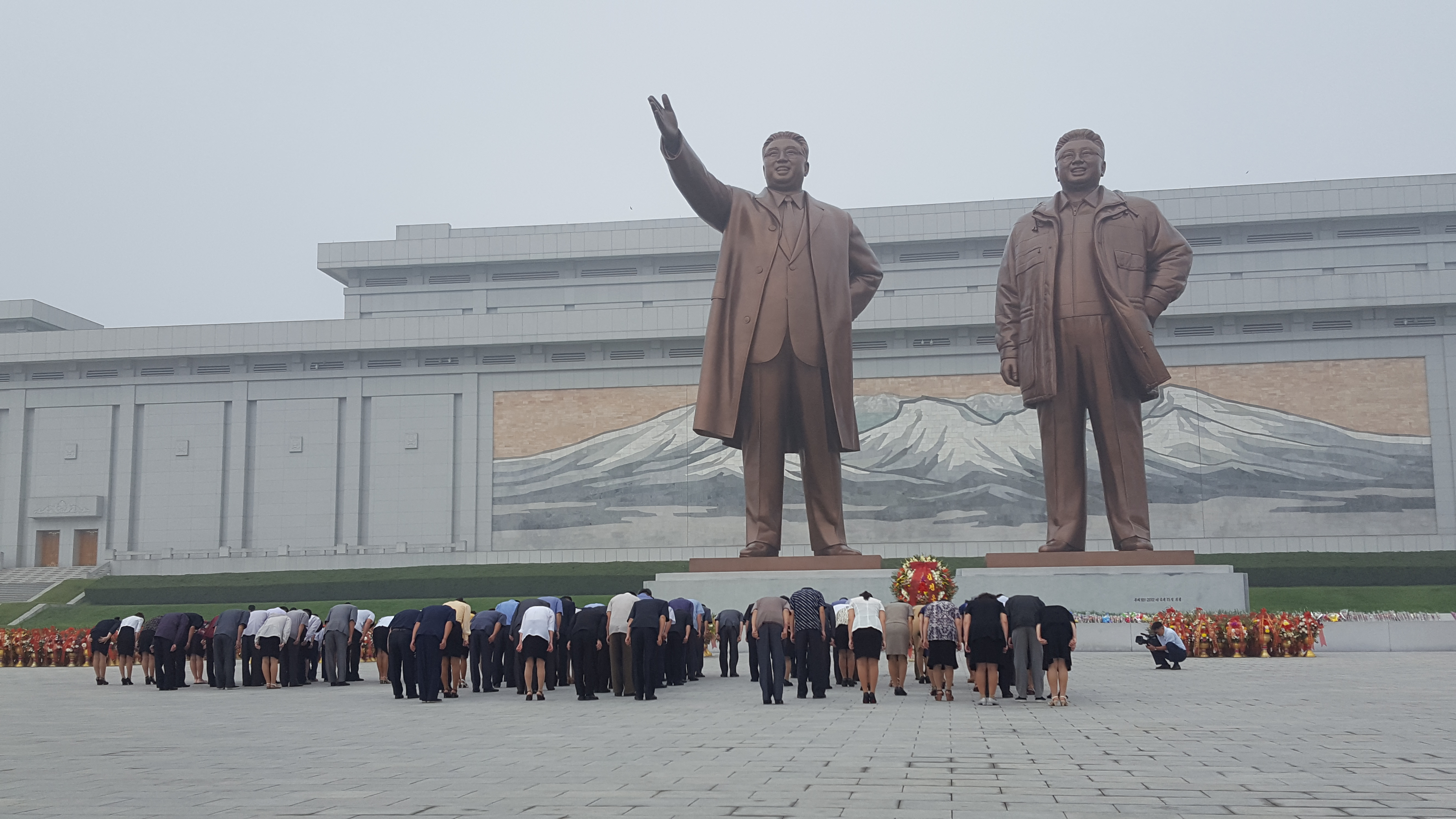 North Korean paid tribute to the statues of Kim Il Sung and Kim Jong Il in Mansudae Grand Monument on the occasion of the 69th founding anniversary of the DPRK (9/9/2017). The floral basket in the middle is presented Kim Jong Un, according to Korean Central News Agency.